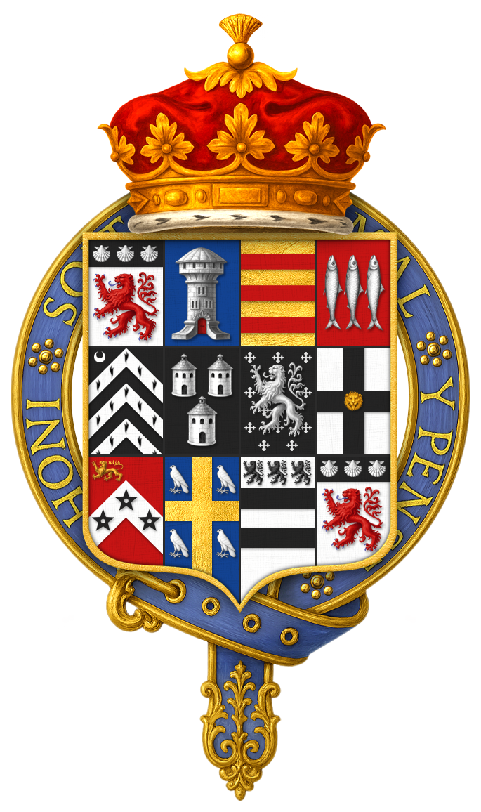 Shield of arms of Francis Russell, 9th Duke of Bedford, KG, as displayed on his Order of the Garter stall plate in St. George's Chapel.